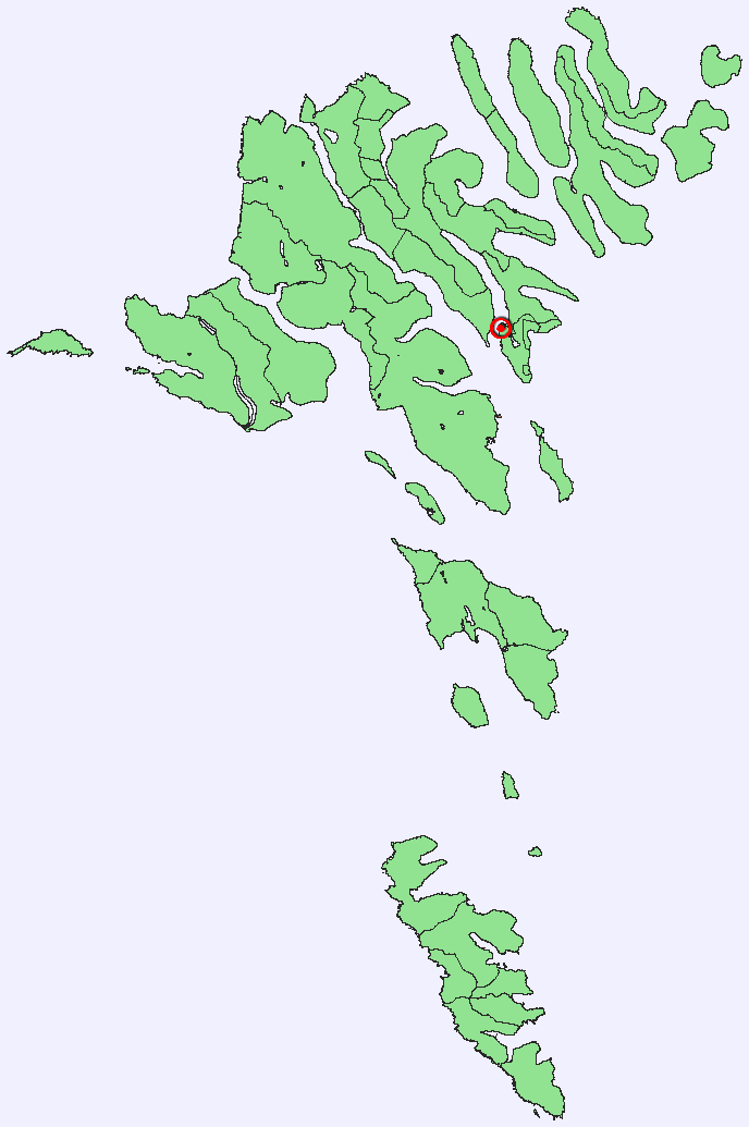 Position of Saltnes in the Faroe Islands